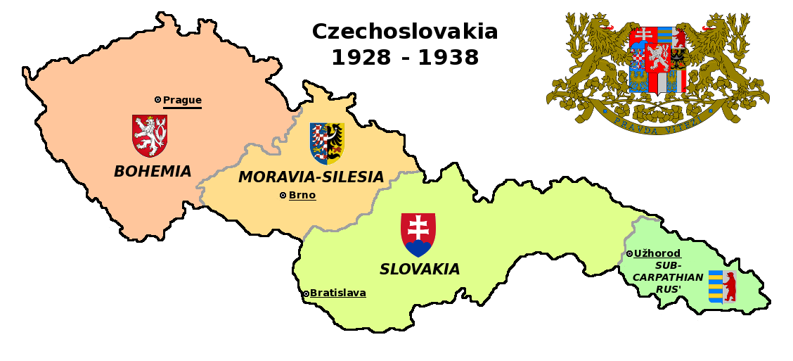 Maps of Czechoslovakia in 1928-1938 with marked borders of all four Czechoslovak countries and their regional capital cities Based on Image:Czechoslovakia_COA_medium.svg. *